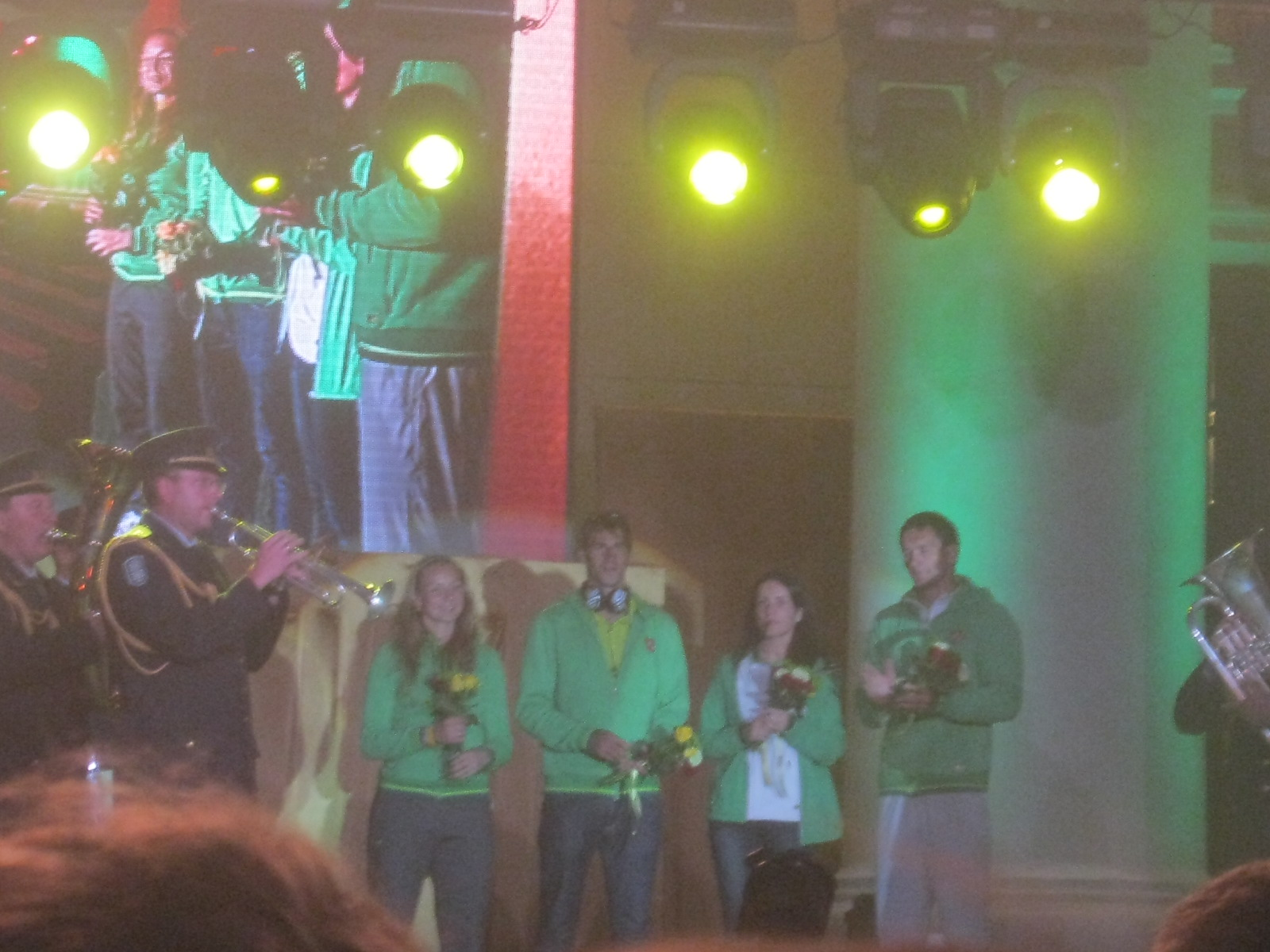 Vilma Rimšaitė, Rokas Milevičius, Akvilė Stapušaitytė, Egidijus Balčiūnas